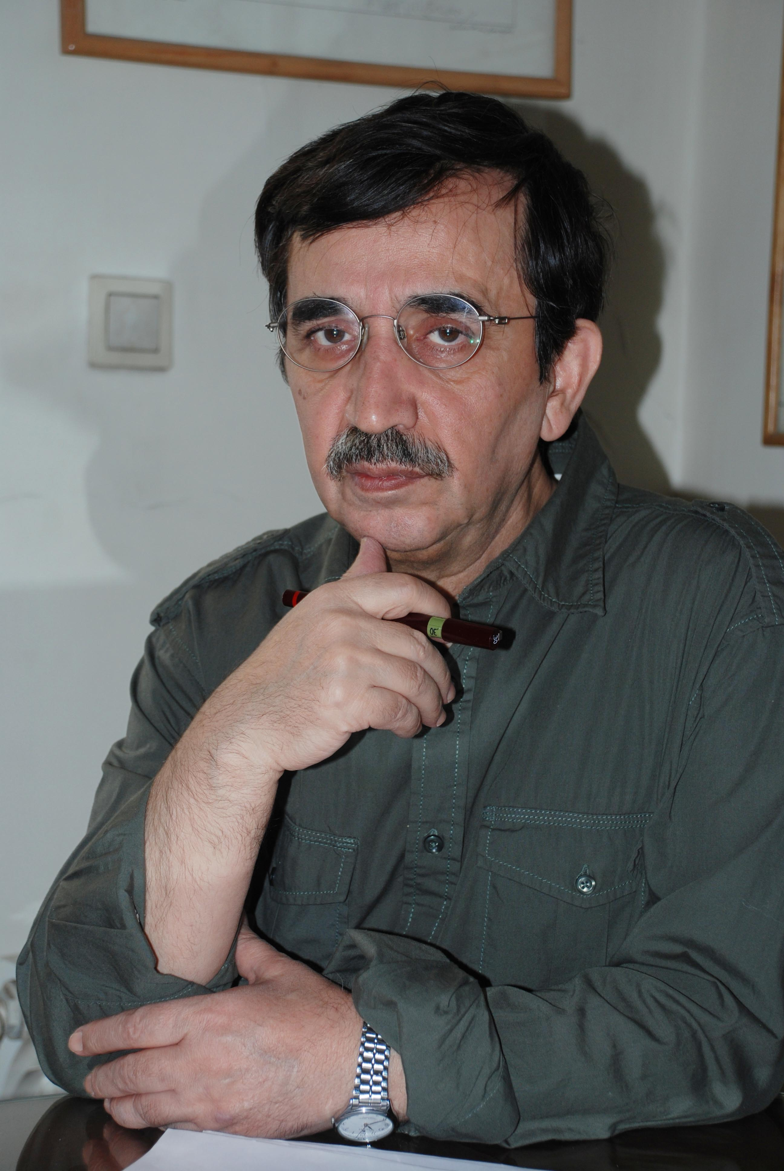 Ali Asghar Mohtaj - Taken in his gallery